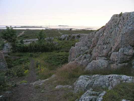 Island of Jurmo in Gulf of Finland at summer of 2004.